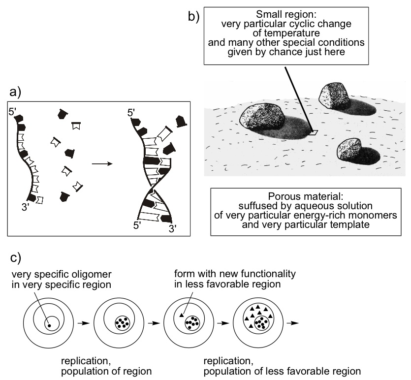 Modeling Origin of Life